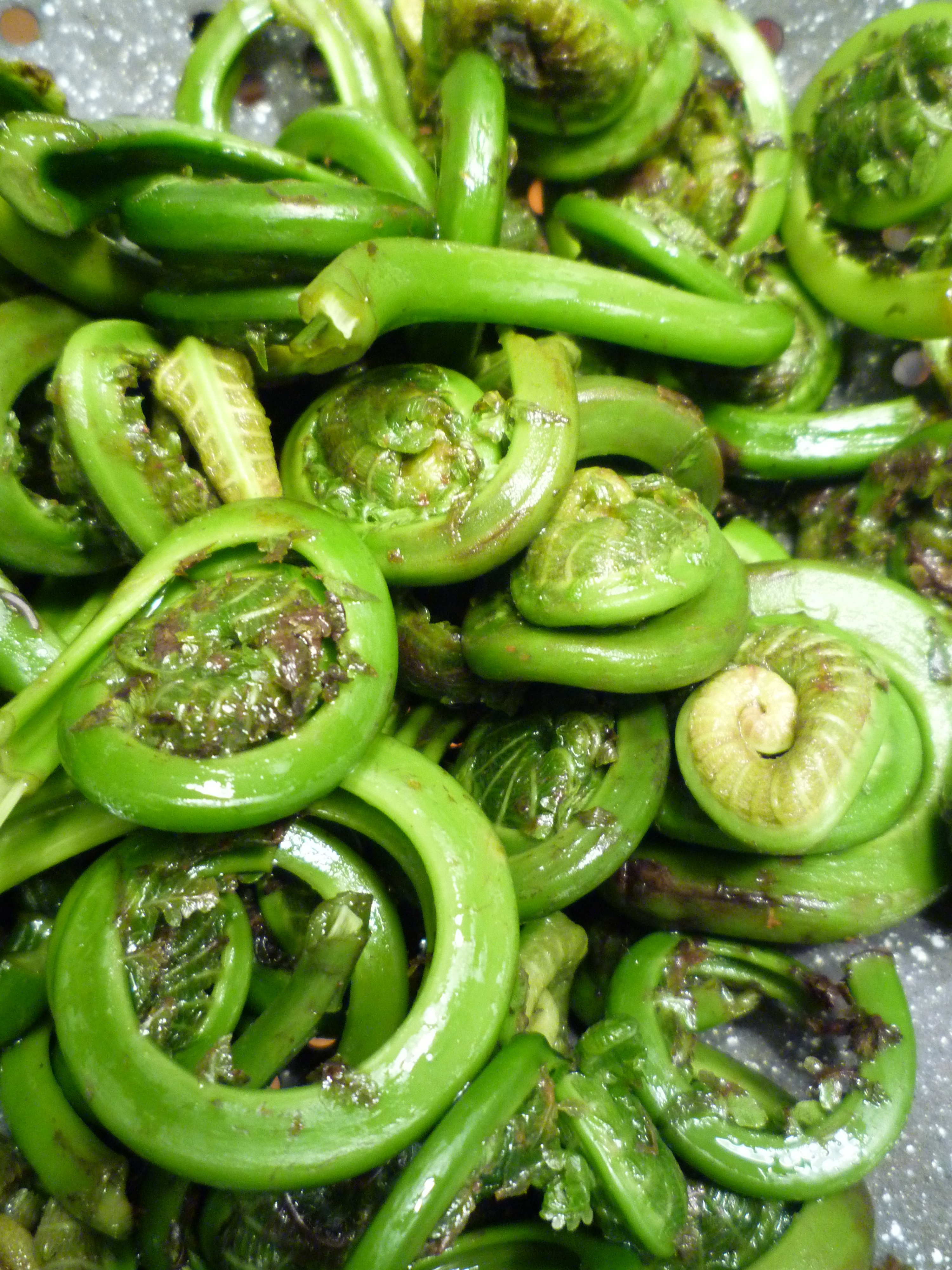 Closeup of washed fiddlehead ferns in Ontario, Canada